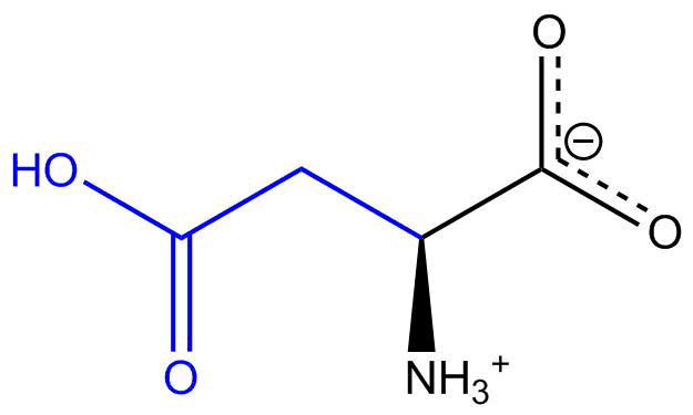 Structure of Aspartic Acid at Physiological PH